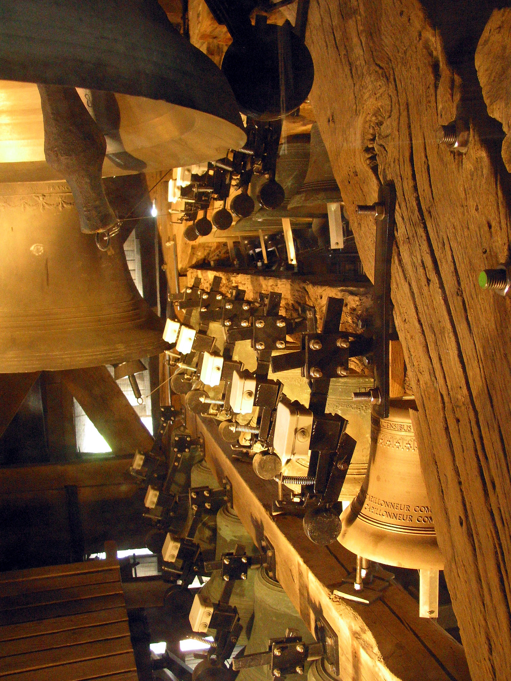 Tournai (Belgium), partial view on the belfry carillon.